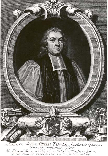 Portrait of Thomas Tanner (1674-1735)